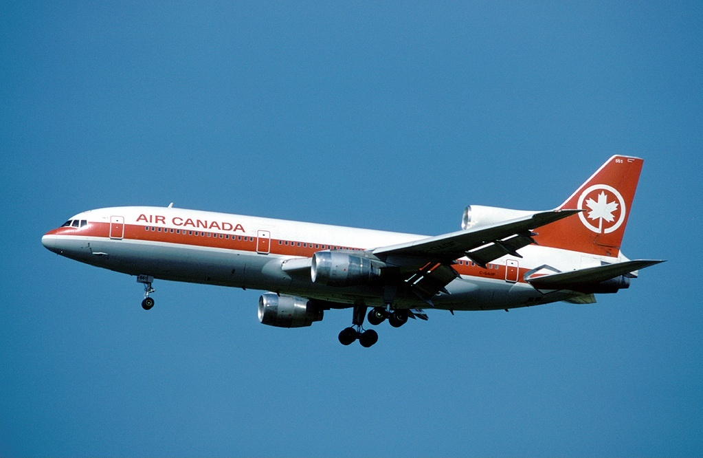 Air Canada L-1011-285-3 Tristar C-GAGF at Zurich International Airport